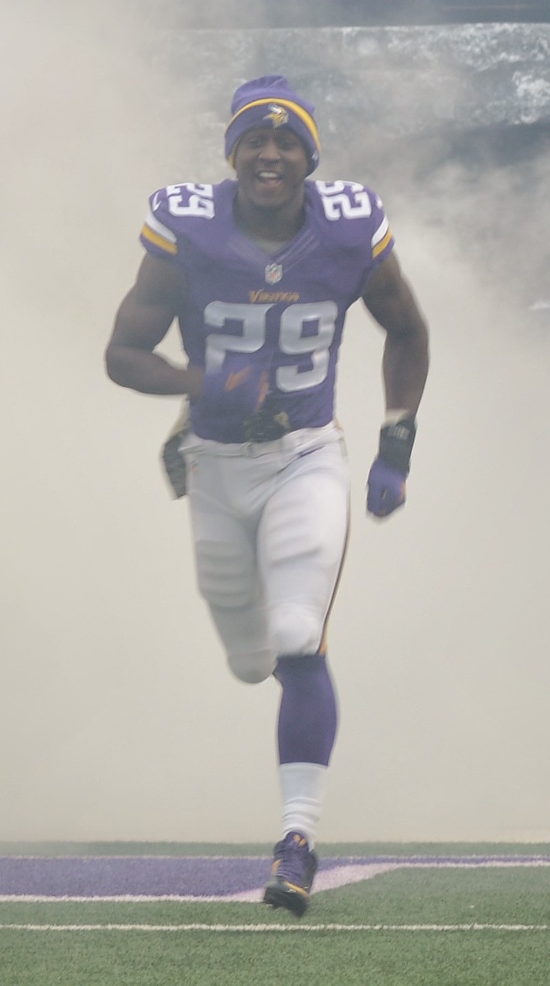 Xavier Rhodes with the Minnesota Vikings in 2014 on Military appreciation day.